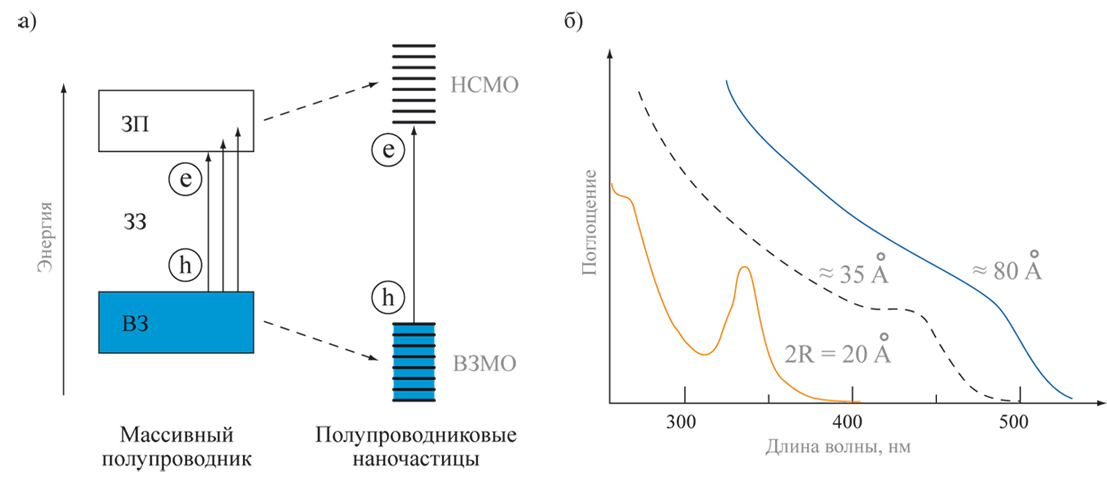 Energy diagram of the increase of the band gap in the transition from bulk semiconductor to semiconductor nanoparticles. ВЗ - valence band ЗЗ - forbidden zone, ЗП - conduction band, the ВЗМО - upper filled molecular orbitals, НСМО - lower unoccupied molecular orbitals. б - The absorption spectra of CdS nanoparticles in the UV and visible wavelength range. Blue shift of the absorption edge is observed with a decrease in the size of the colloidal nanoparticles.